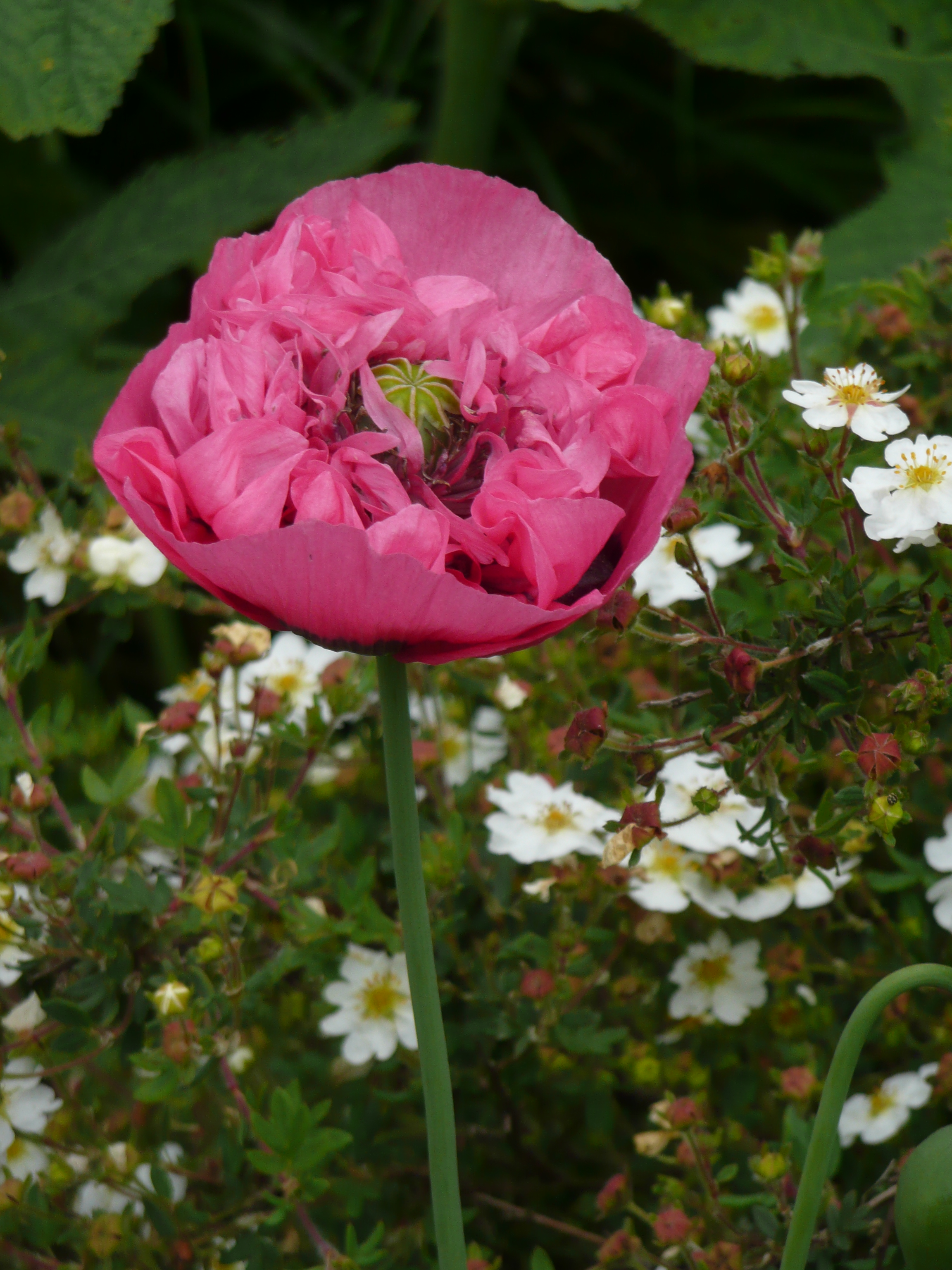 Images from Culpepper Community Garden, London